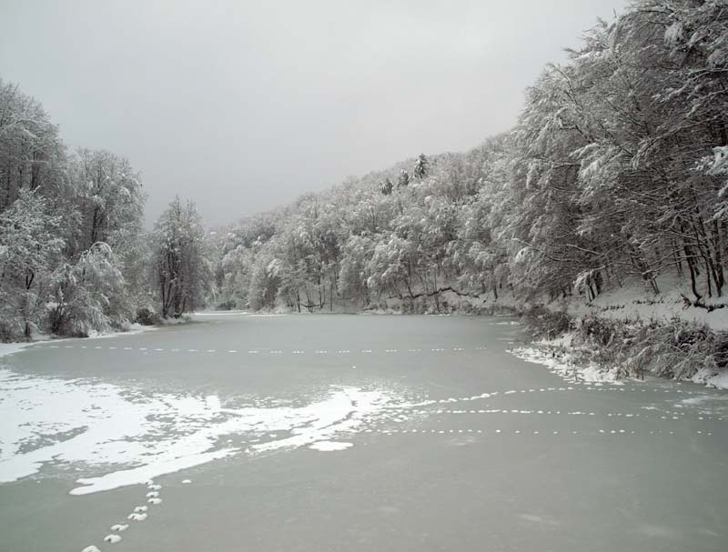 Frozen lake in the Dognecea mountains